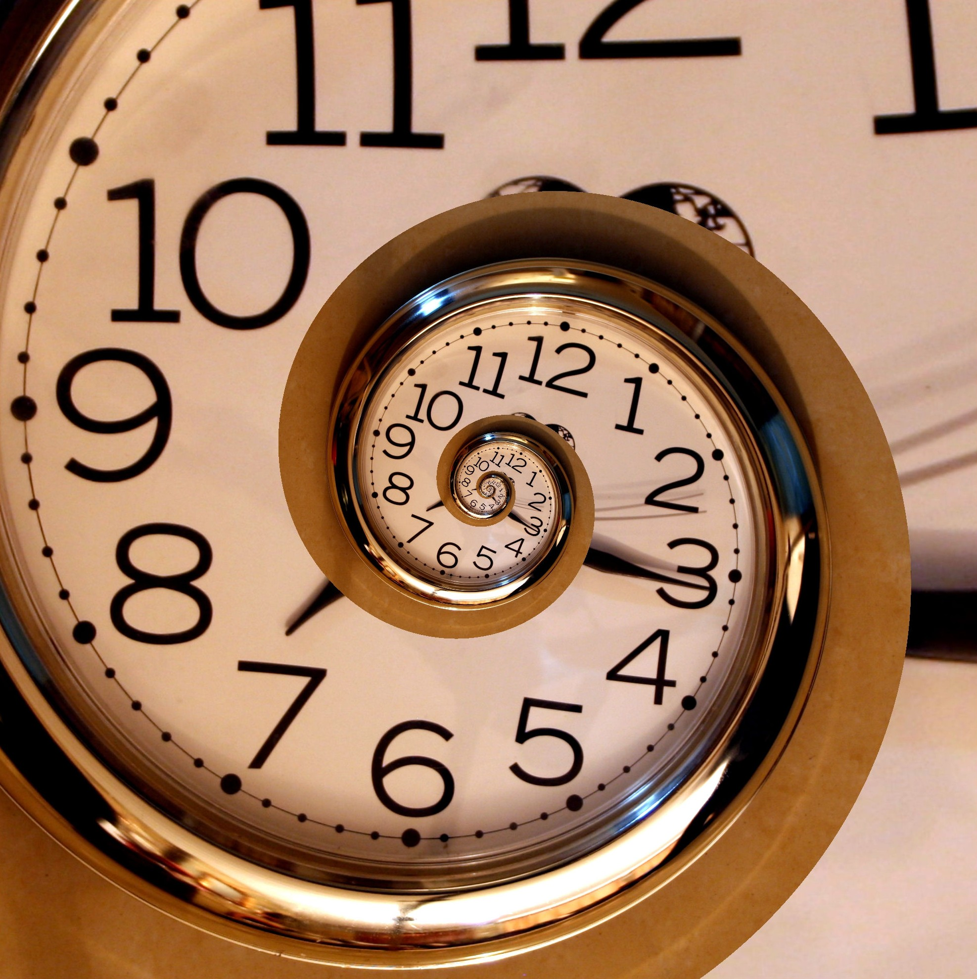 My most popular photo on flickr, and outside thanks to the creative commons licence. Thank you all for your comments and views. Got some questions about the creation of this. As been said this is made in the Gimp ( with the plug-in Mathmap. If you put "mathmap" and "gimp" in a search engine, you will be able to find it. This work is copyrighted under the creative commons licence, you can use it for anything like blogs and so, as long as you give me credit. I would appreciate it if you can post a link if you used it, but it is not a must. I hope you enjoy my other photo's as well. You can contact me on flickr or on my personal website